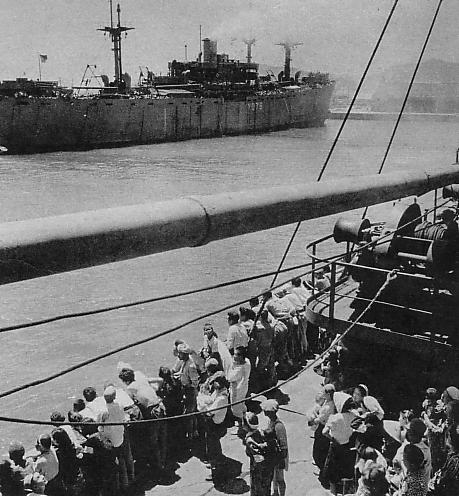 Japanese emigrants repatriated from Port Huludao to Japan